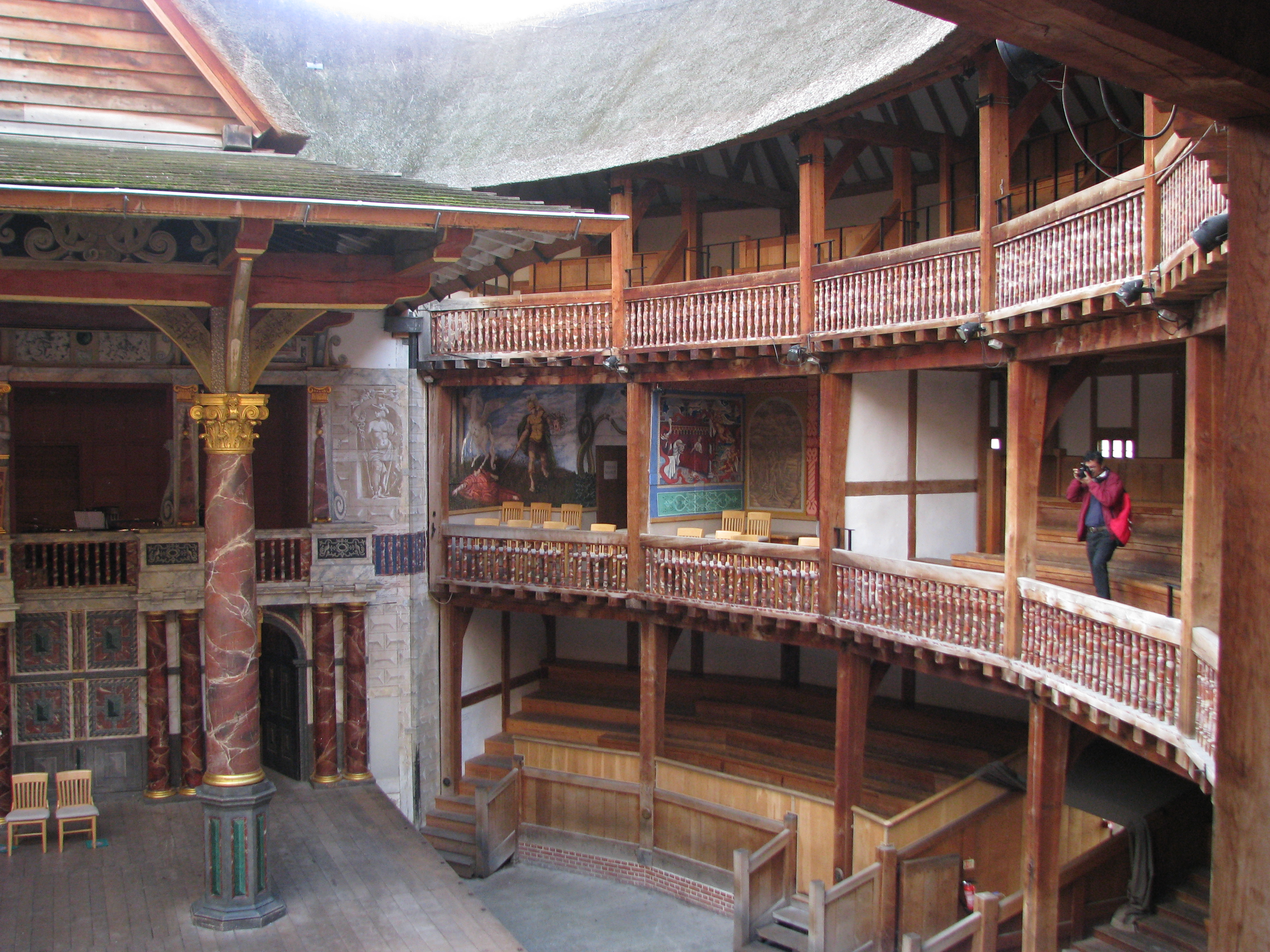 From this balcony level you can see all the richness of the Globe and how amazing a place it would be to see a performance of Shakespeare the way it was originally intended.